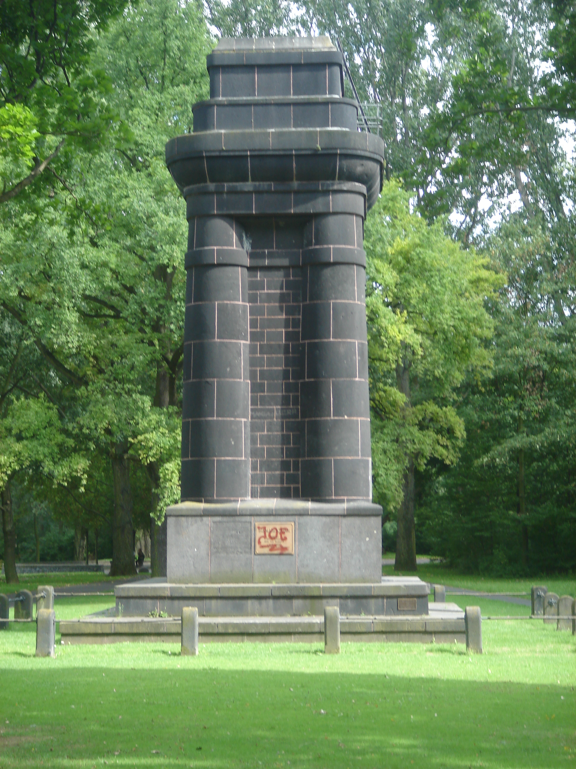 The Bismarckturm (Bismarck Tower) in Bonn-Gronau, Germany.